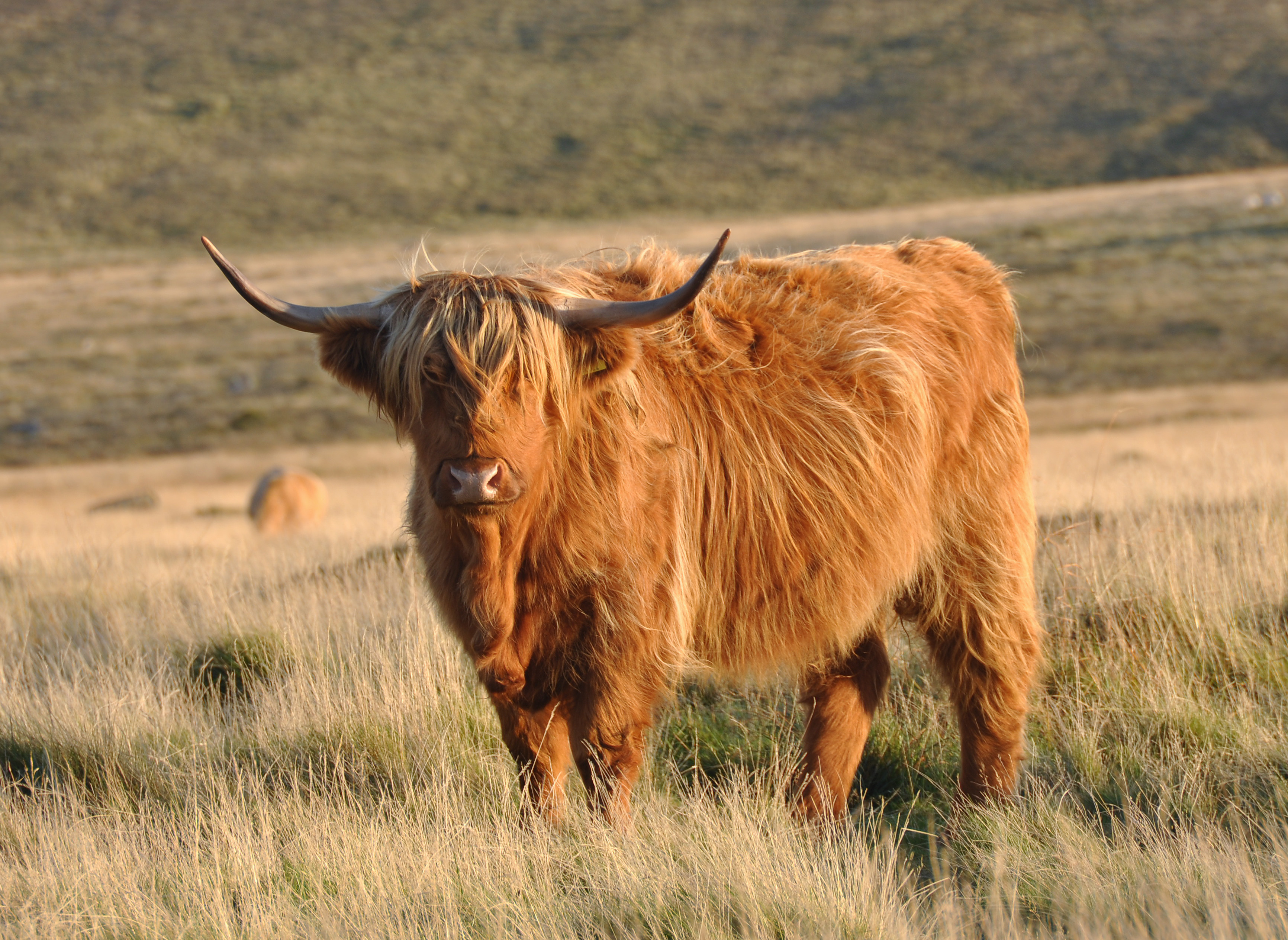 A Highland cow on Pupers Hill, in southern Dartmoor, England.